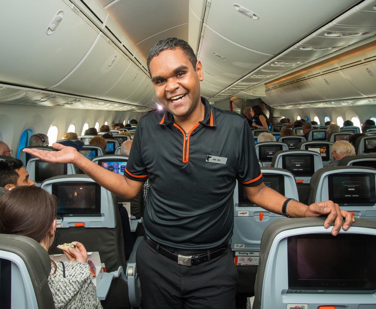 A male Aboriginal Australian Jetstar flight attendant on board the airlines' first commercial Boeing 787 Dreamliner flight from Melbourne to the Gold Coast Airport.